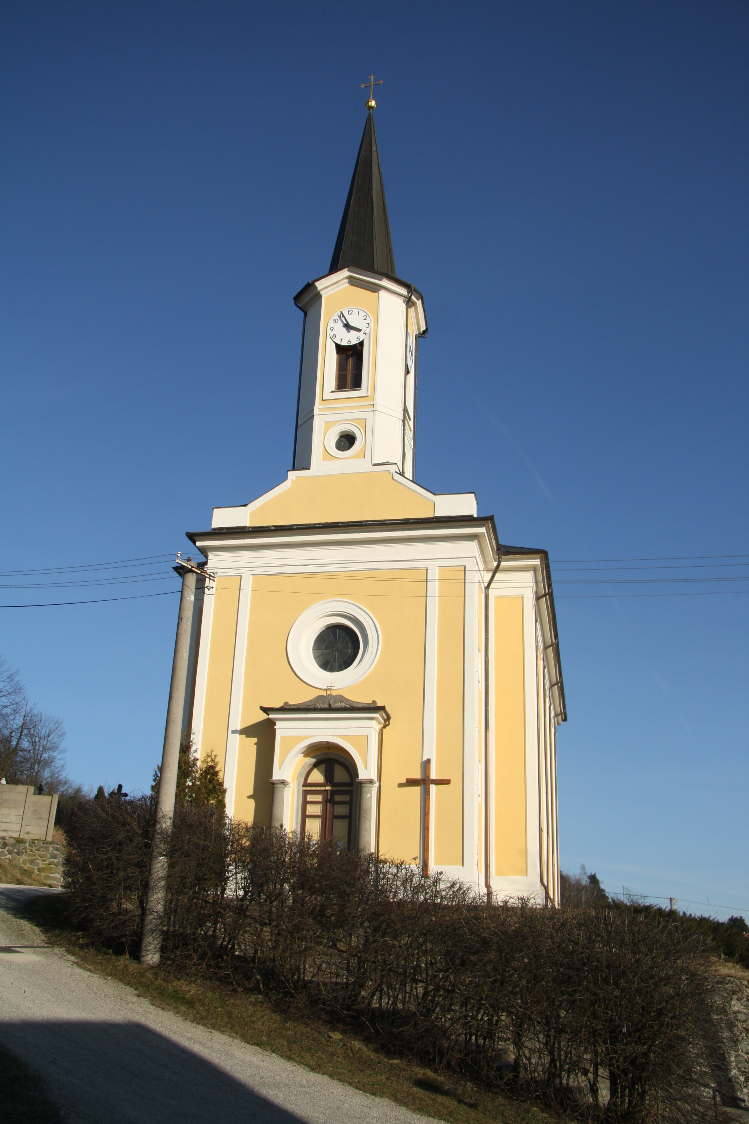 Overview of church of Saint Mark in Benetice in 2015, Třebíč District.